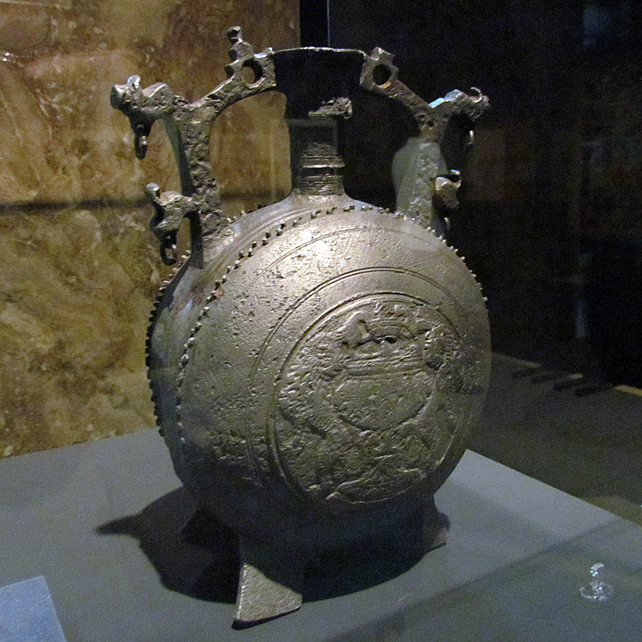 Ibrik 16 c, Janjevo, Serbia